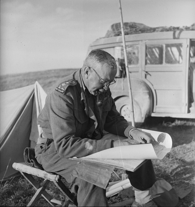 Brigadier Graham Beresford Parkinson studies his map a few miles behind the lines of the Italian battlefront, during World War II. Photograph taken circa 19 November 1943 by George Frederick Kaye. Kaye, George Frederick, 1914-2004. Brigadier G B Parkinson studies his map behind the lines of the Italian battlefront, World War II - Photograph taken by George Kaye. New Zealand. Department of Internal Affairs. War History Branch :Photographs relating to World War 1914-1918, World War 1939-1945, occupation of Japan, Korean War, and Malayan Emergency. Ref: DA-04578-F. Alexander Turnbull Library, Wellington, New Zealand. George Frederick Kaye was an official photographer of the NZ Military Forces and thus copyright in this work rests or rested with the Crown. The Crown has released this work under the CC-BY 3.0 unported license. Refer to source website for details: This work's copyright expired 50 years after creation in New Zealand and probably also in countries following the rule of the shorter term.